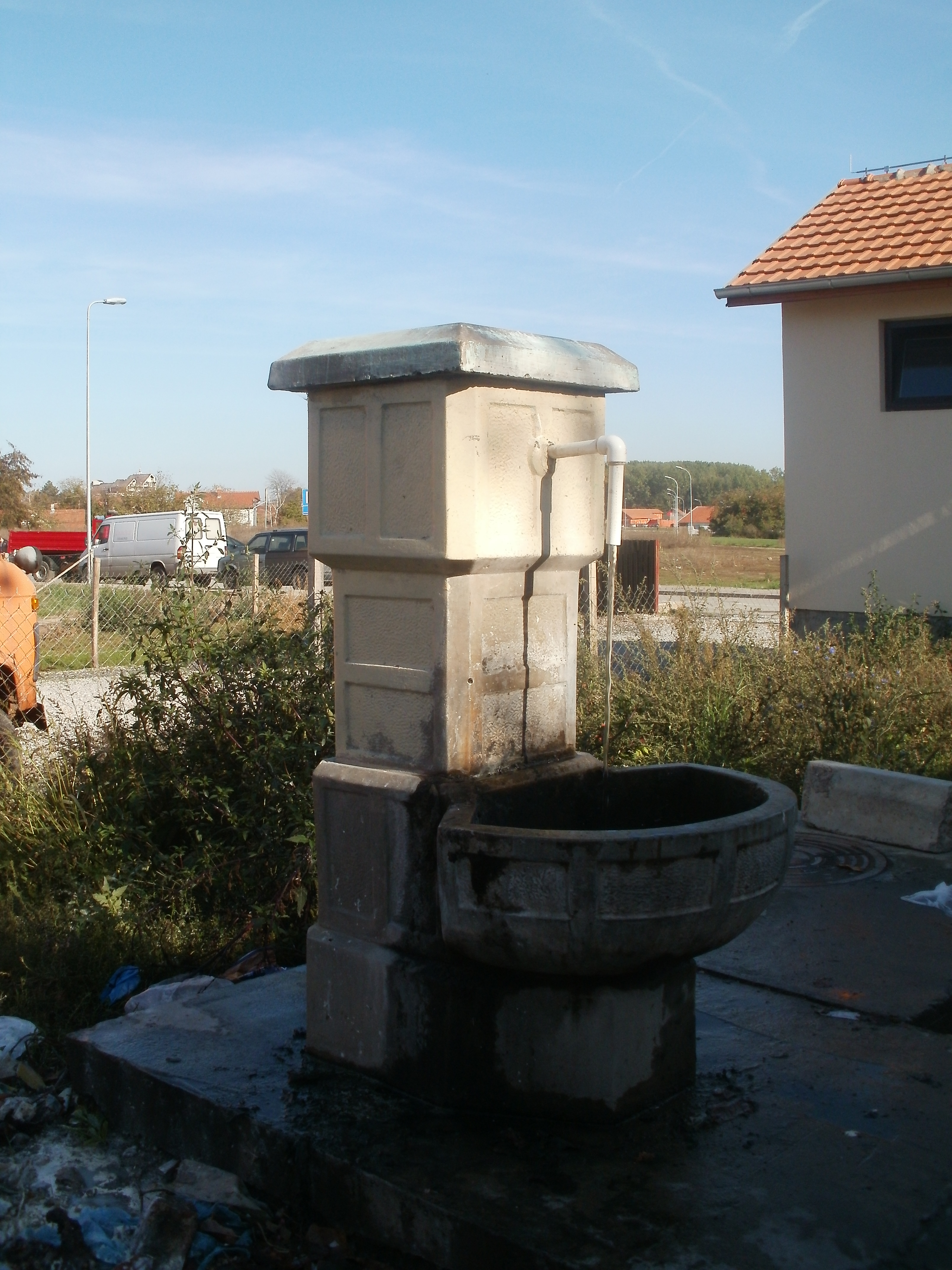 Чесма која се налази на улазу у бањи